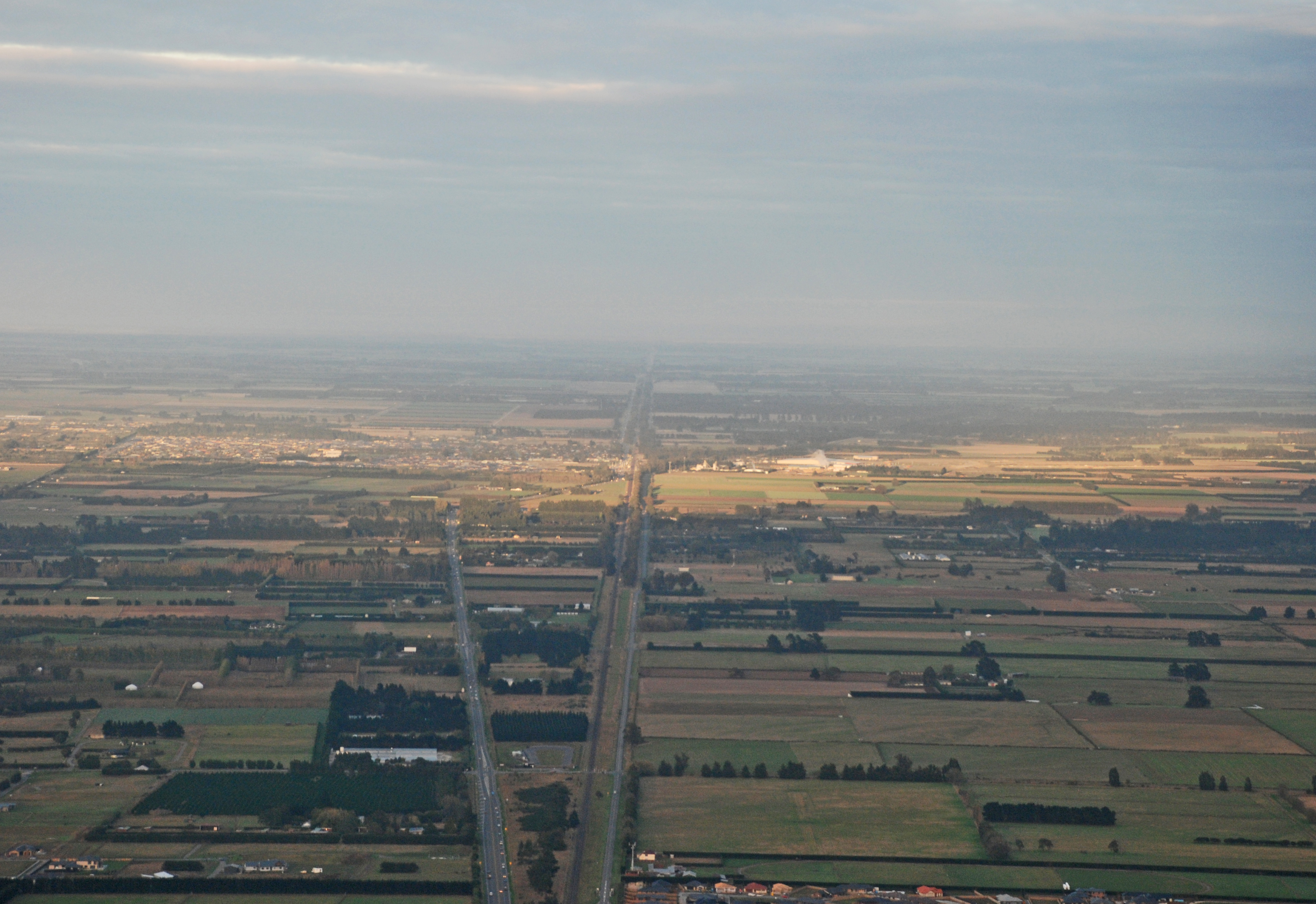 Arriving at Christchurch from Wellington